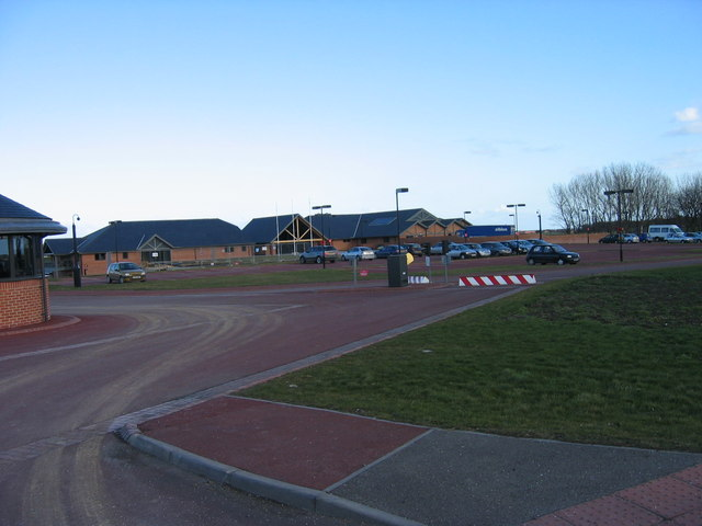 Academy of Light, Sunderland. Academy of Light which was built on the site of Moor Farm and its farmland. Now a training facility for Sunderland AFC. This photograph taken on the day Sunderland sacked their manager Mick McCarthy.